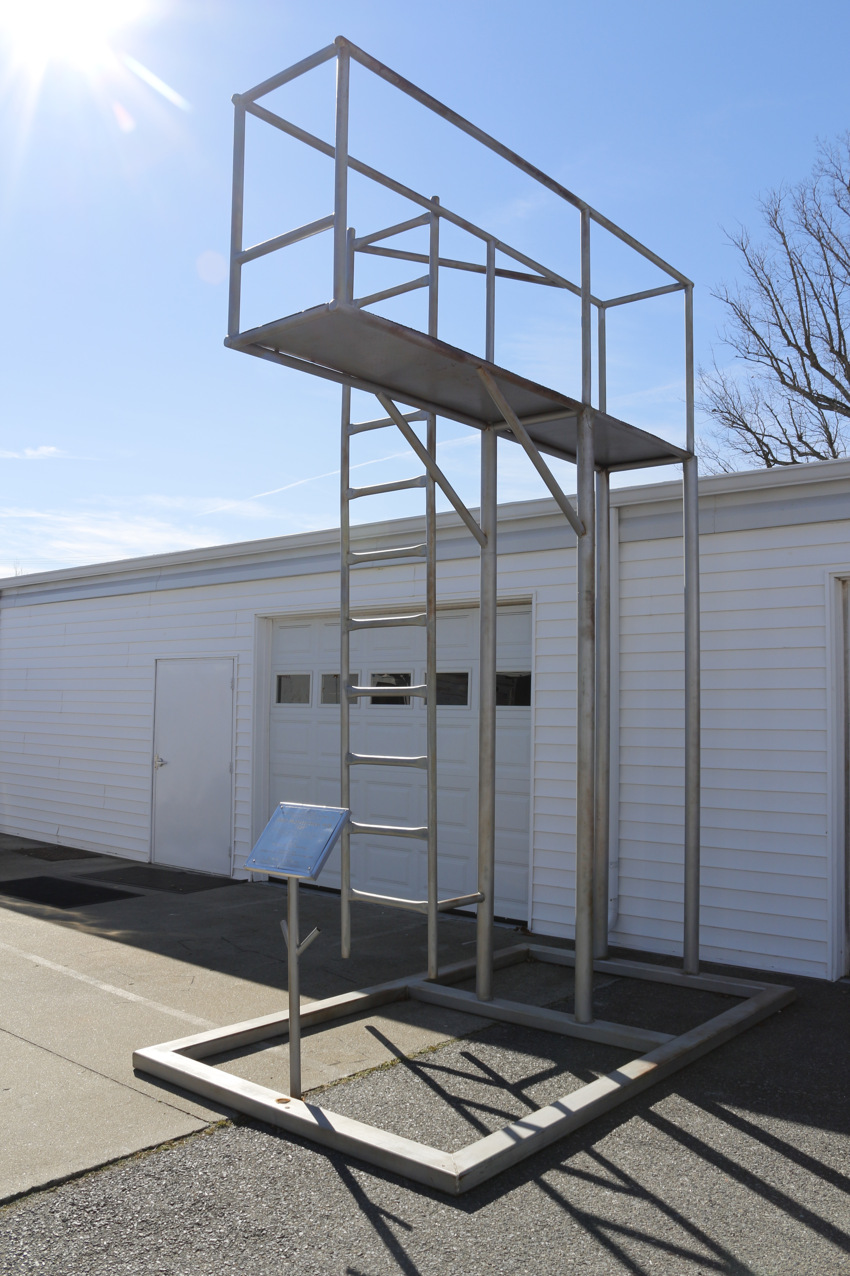 Flag stand from Lakewood (GA) Speedway site of Richard Petty's first win presented to Richard Petty at his retirement party 1992-11-14 at the Georgia Dome by the Atlanta Motor Speedway. Lee Petty disputed the results of that race and was later awarded the win.[1]